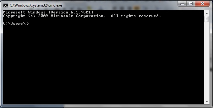 Windows Command Prompt on Windows 7